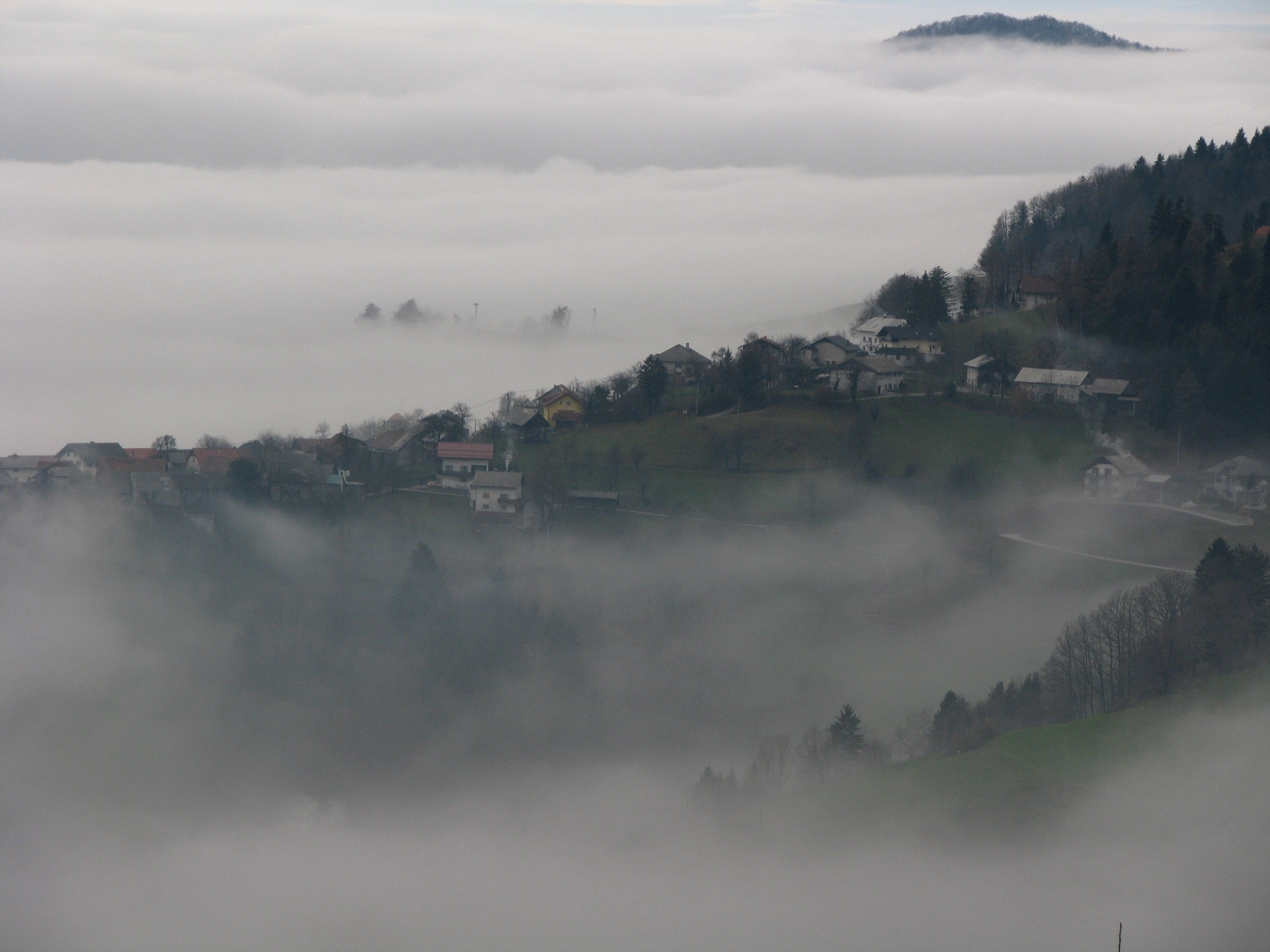 Village of Jesenovo in mists, Zagorje ob Savi municipality, Slovenia